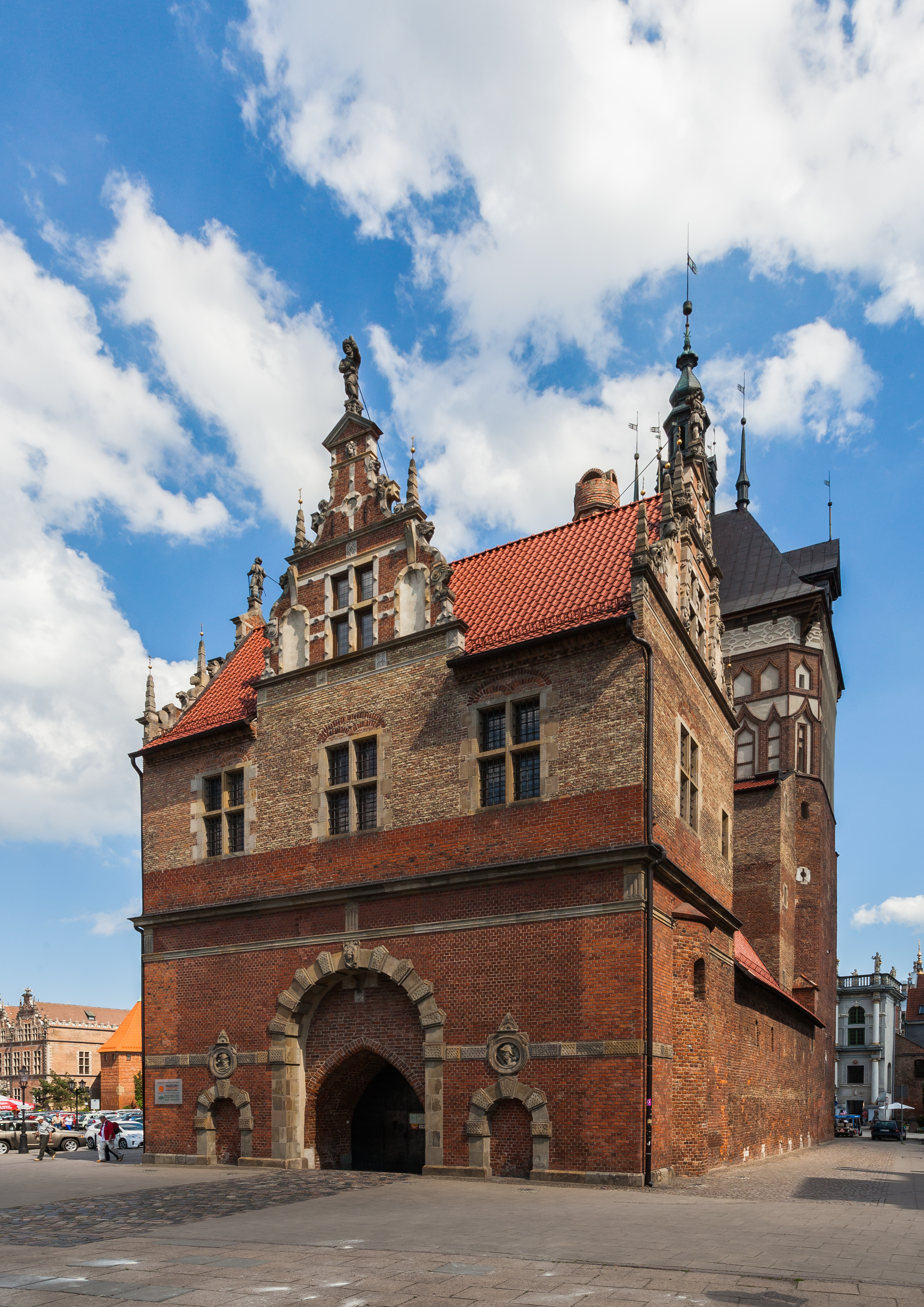 House of Tortures, Gdansk, Poland